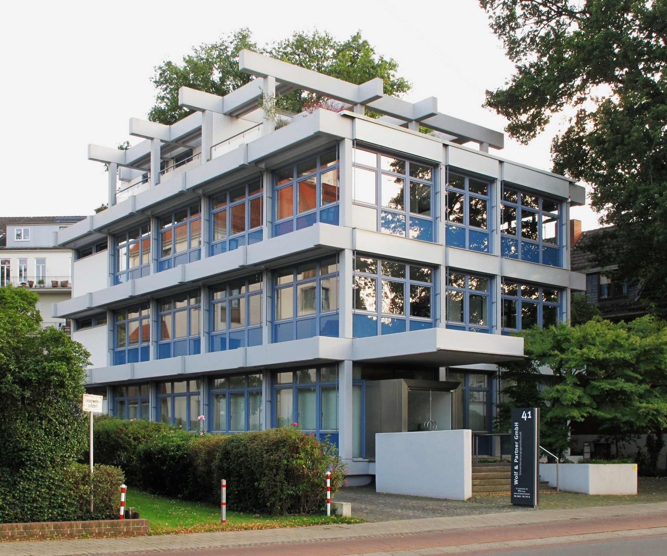 Office building Schwachhauser Heerstraße 41, Bremen (Germany